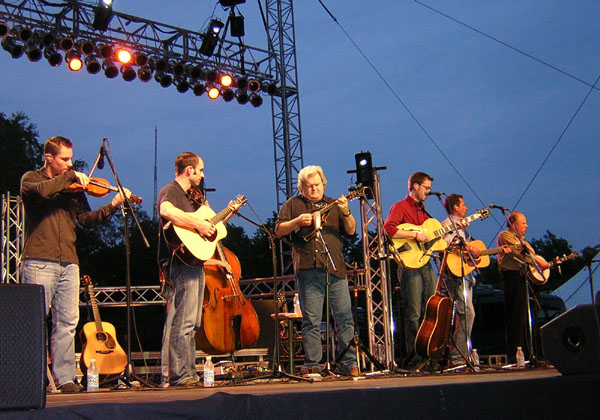 Picture of Ricky Skaggs and Kentucky Thunder performing at Moraine State Park, Pennsylvania, on June 15, 2008.